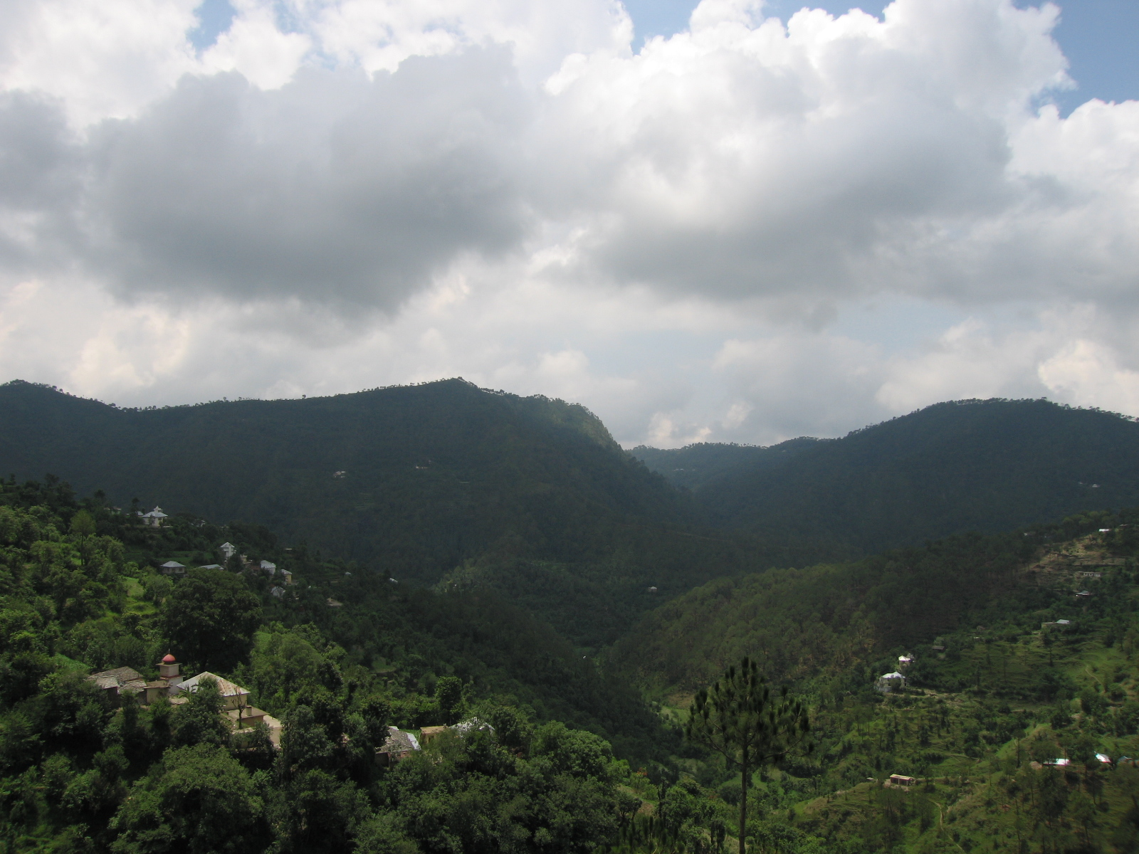 Dhami village seen from jyun kii dhaar